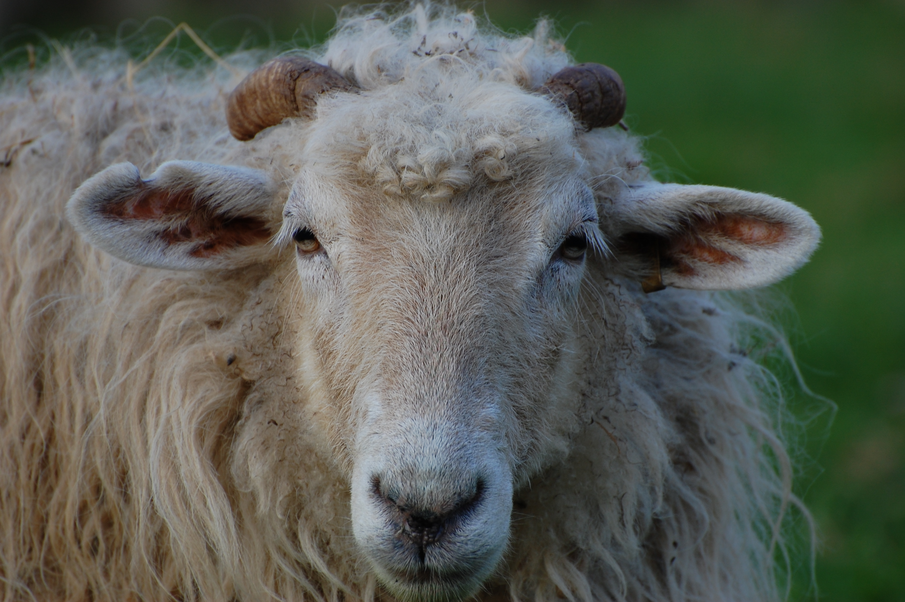 Latxa : breed of sheep from Spain.